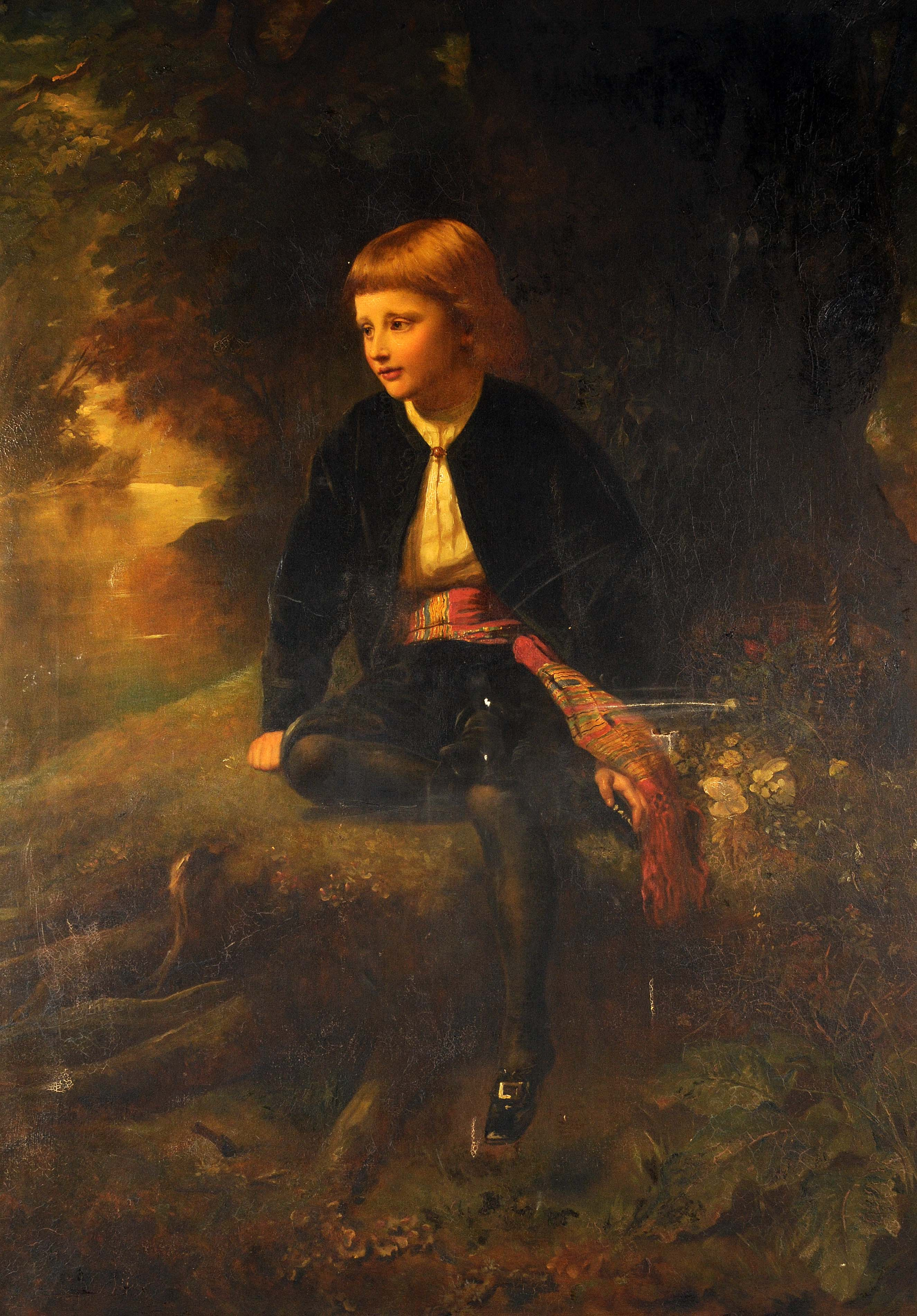 An oil-on-canvas portrait of Lt. Col. Lawrence Challoner Garratt (1868–1946), O.B.E., J.P., of Bishops Court, Devon, England, UK, as a child. Garratt was the grandnephew-in-law of Col. Thomas-Chaloner Bisse-Challoner, after whom he was partly named.